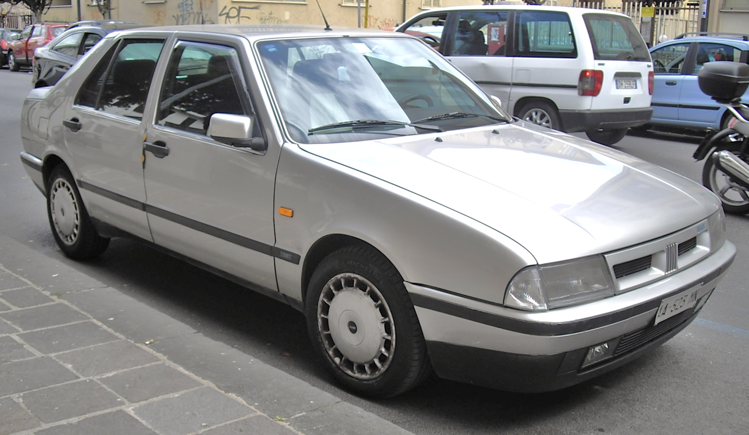 1994 Fiat Croma